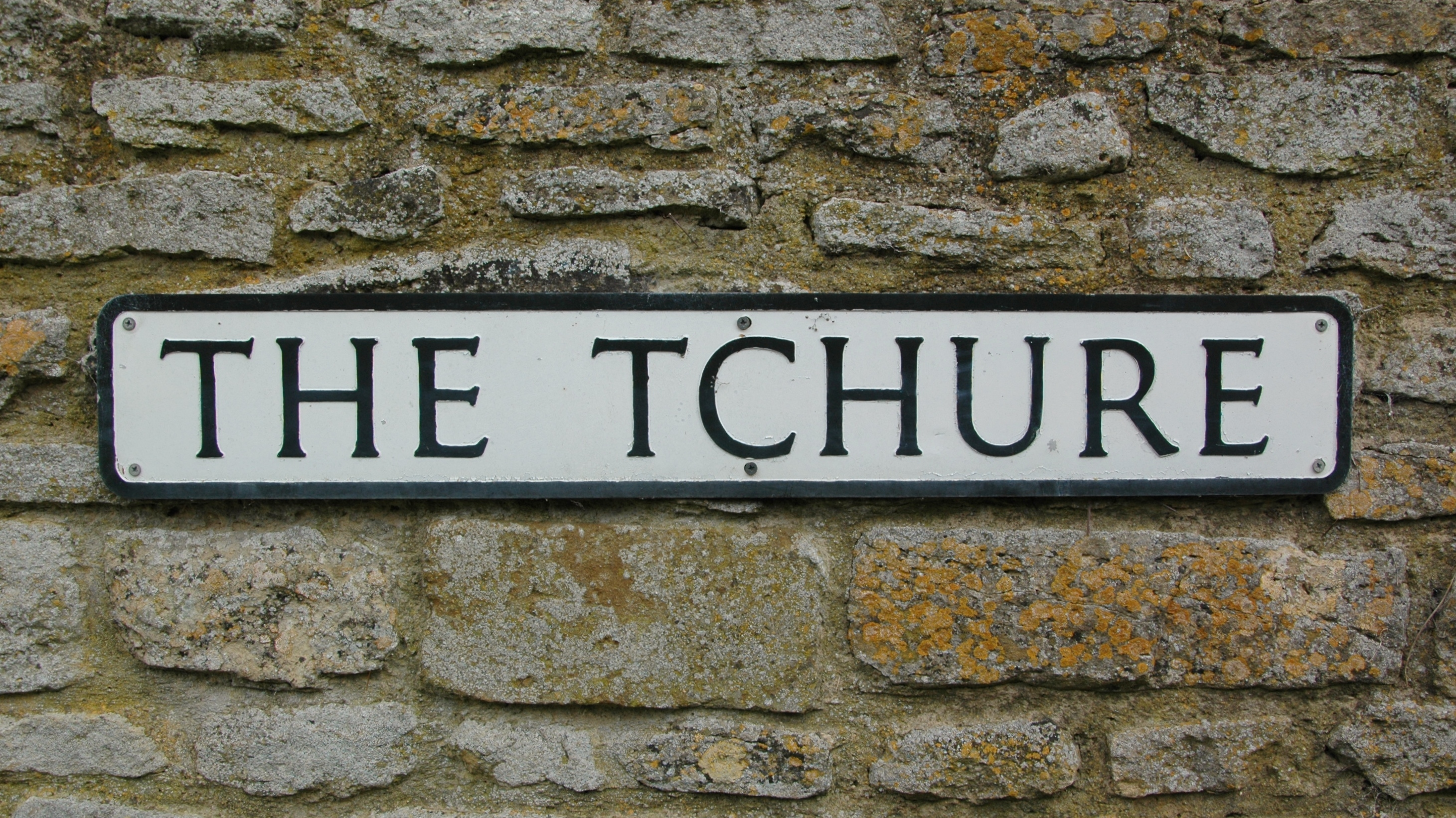 Street name sign for The Tchure alleyway, Upper Heyford, Oxfordshire.